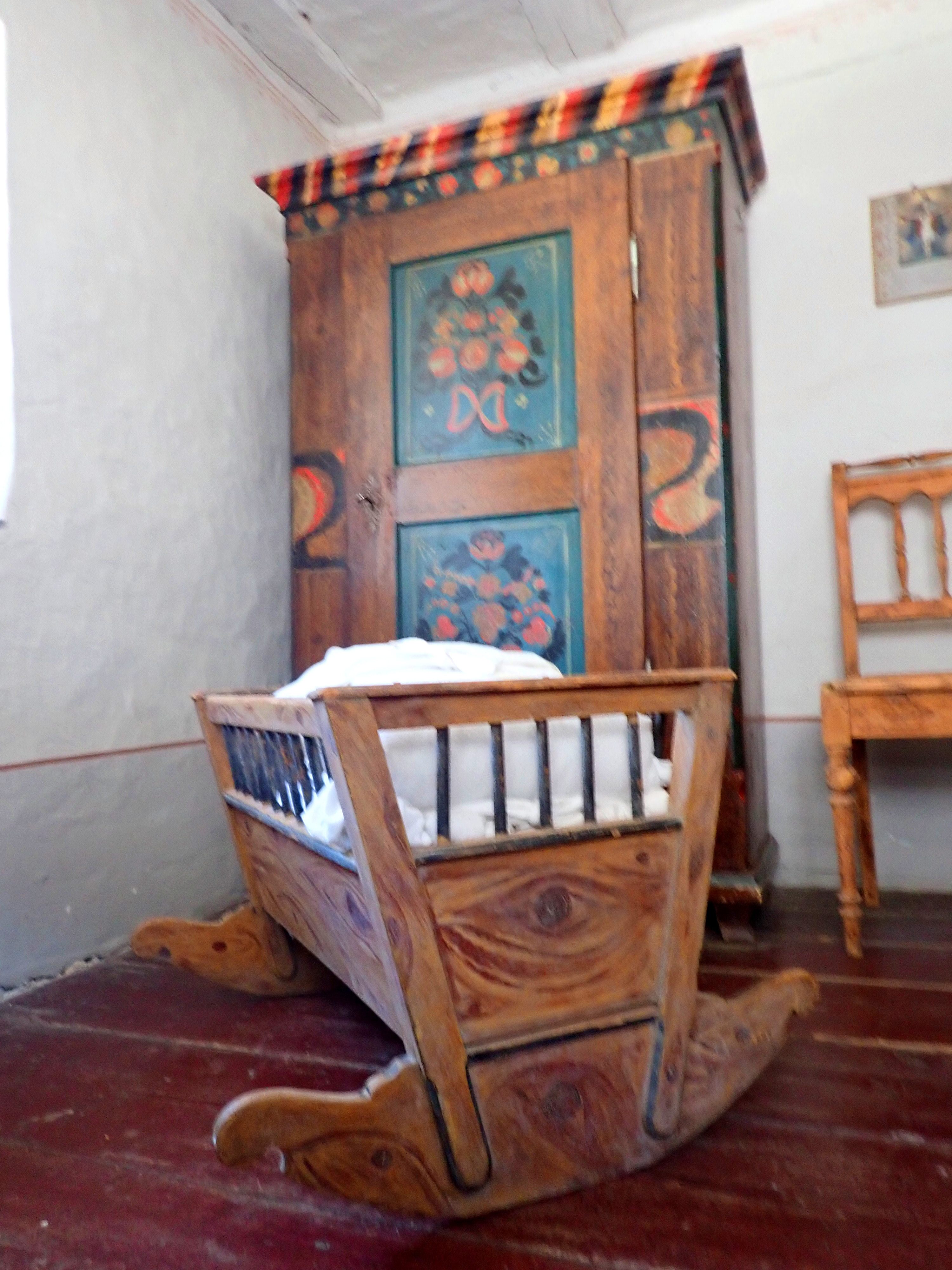 Kinderwiege und Schrank mit Bauernmalerei im Jura-Bauernhof-Museum. Die vom Hand geschreinerten Möbel stammen aus der ersten Hälfte des 19. jahrhunderts.